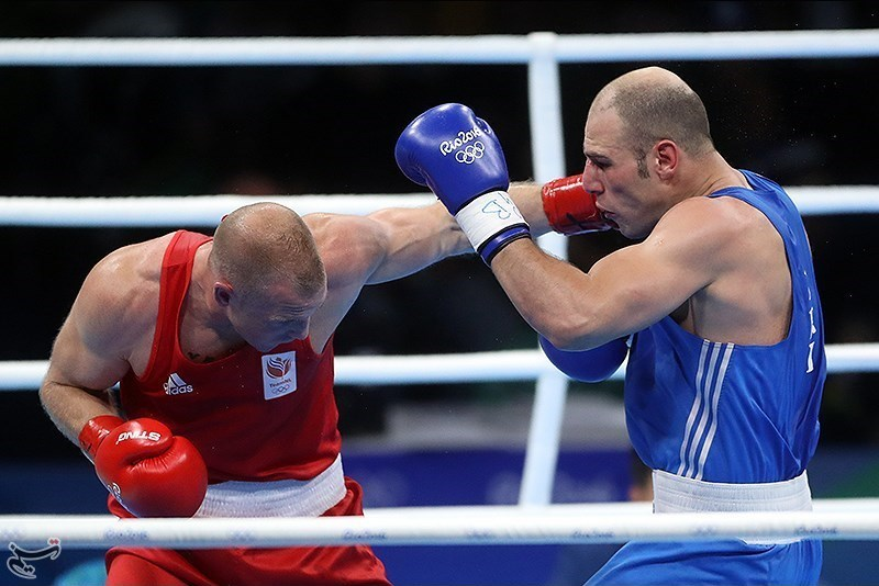 Boxing at 2016 summer Olympic Games in Rio de Janeiro. Ehsan Rouzbahani (Iran) against Peter Mullenberg (the Netherlands)